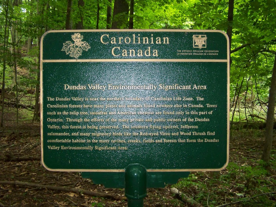 Dundas Valley Conservation Area